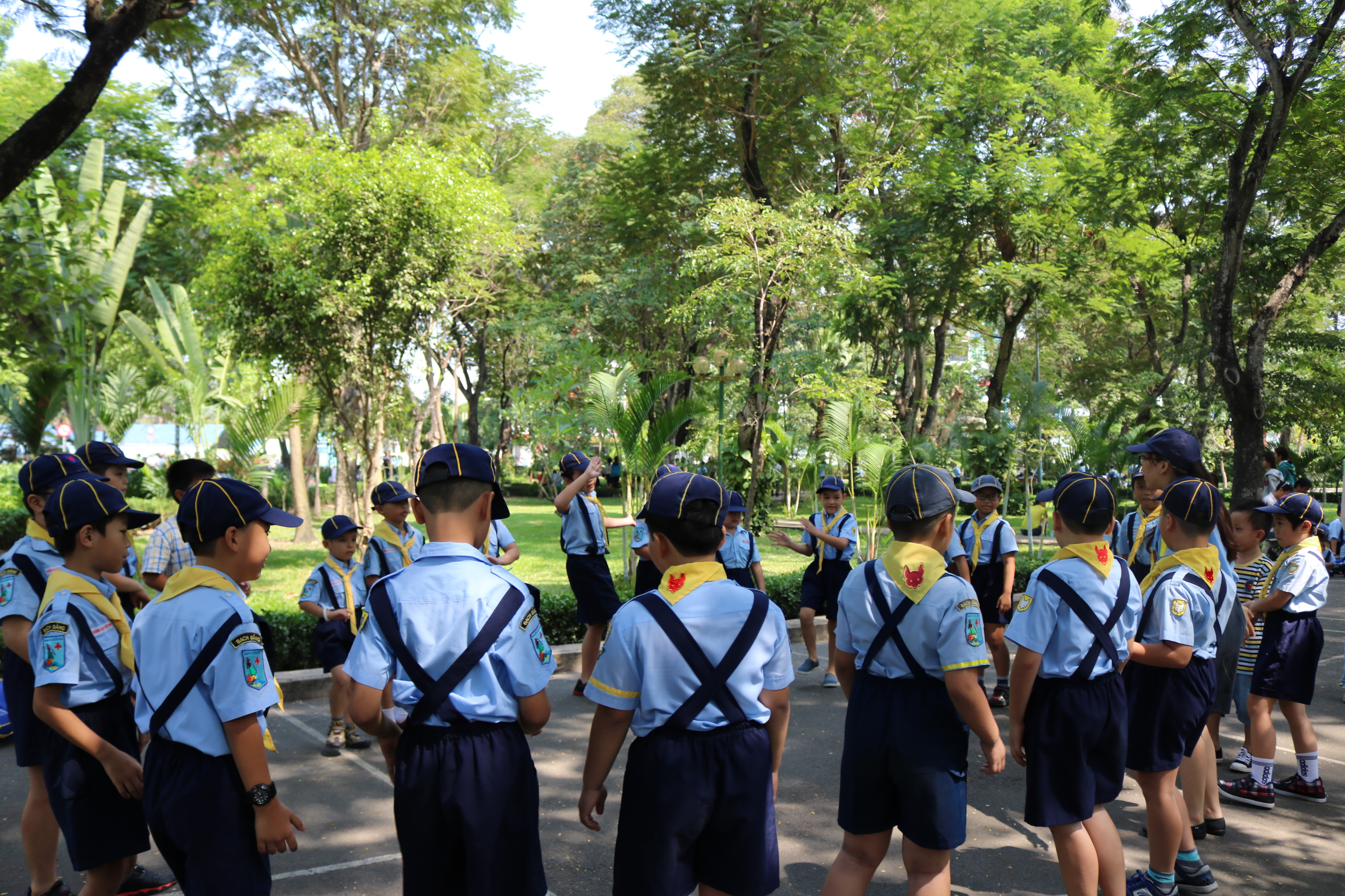 Hướng đạo sinh